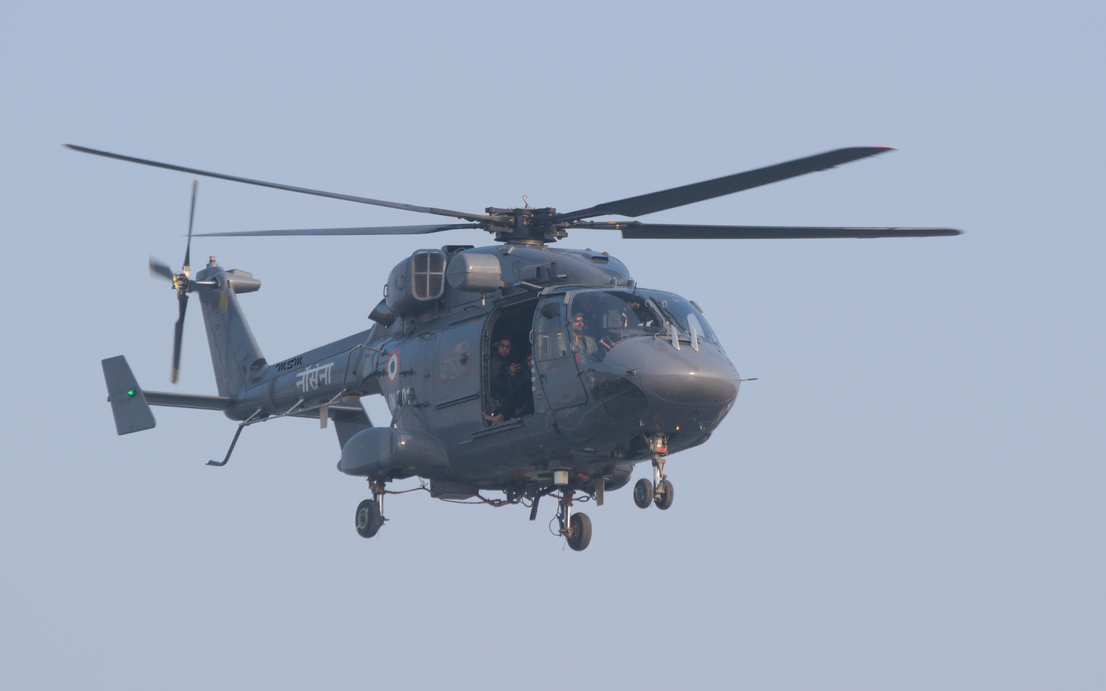 Indian Navy's Dhruv Helicopter